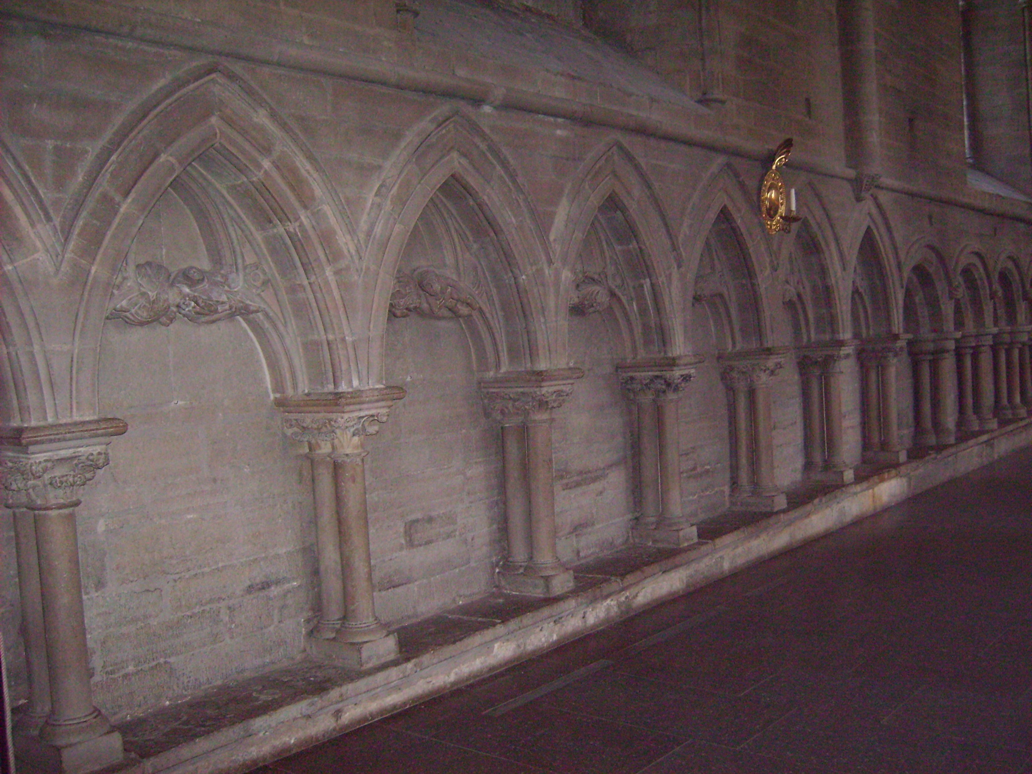 Photo by Harri Blomberg.